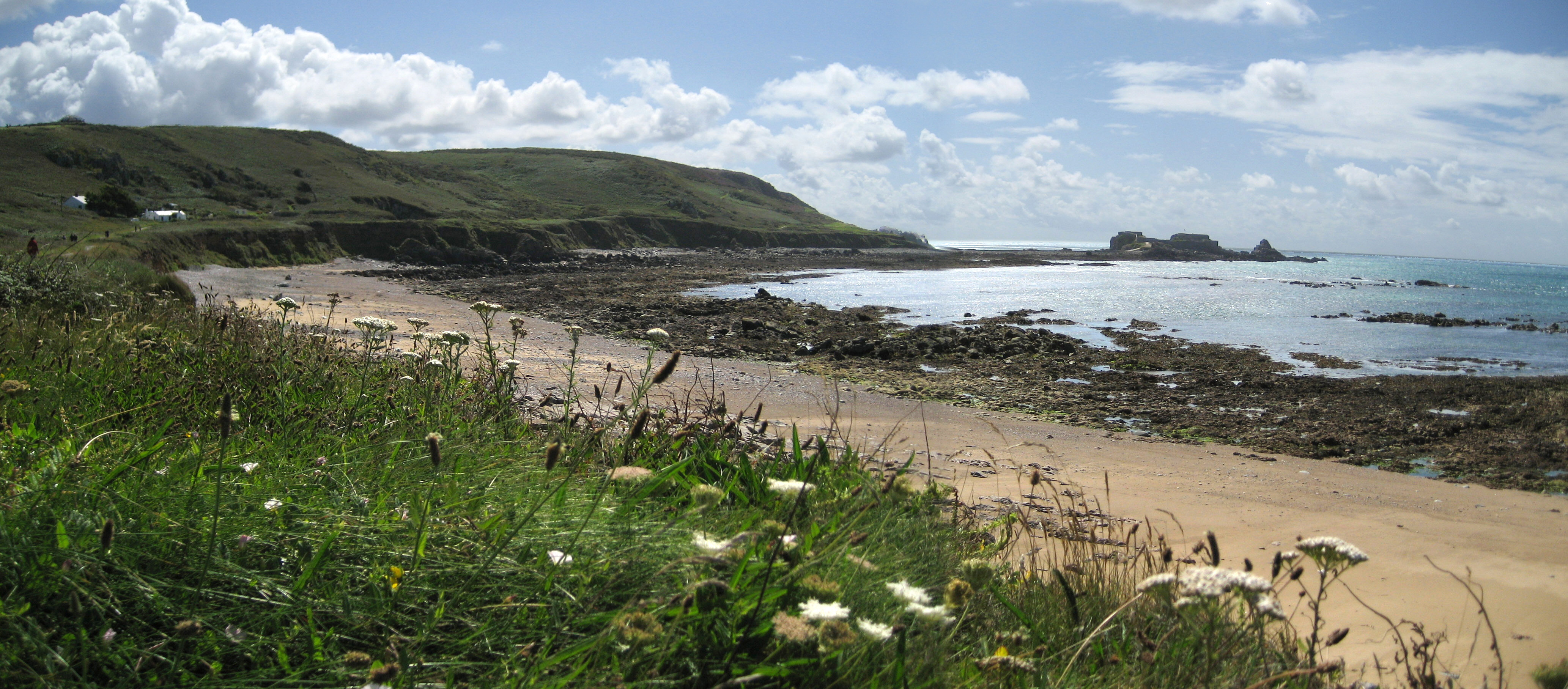 northwest coast of Alderney, Clonque Bay